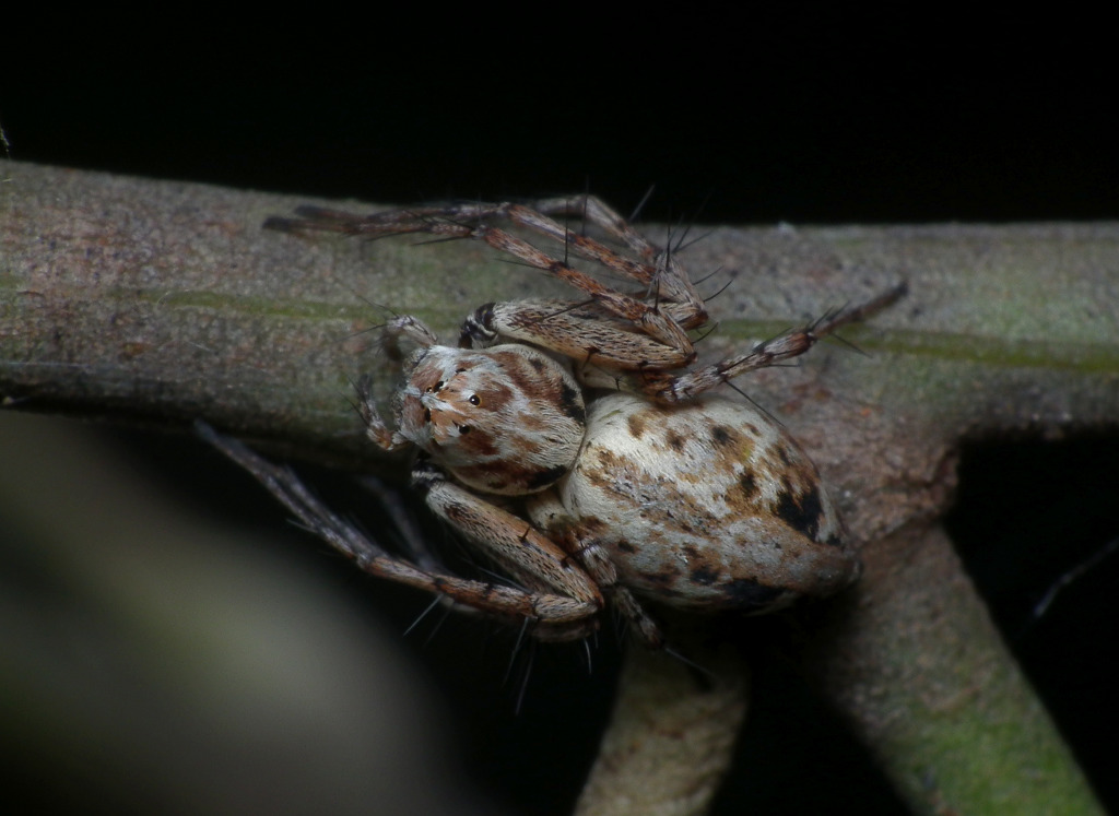 Female Red Lynx Spider (Oxyopes rubicundus), although I couldn't see any of the red spots to be sure. In Brisbane, Queensland, Australia.